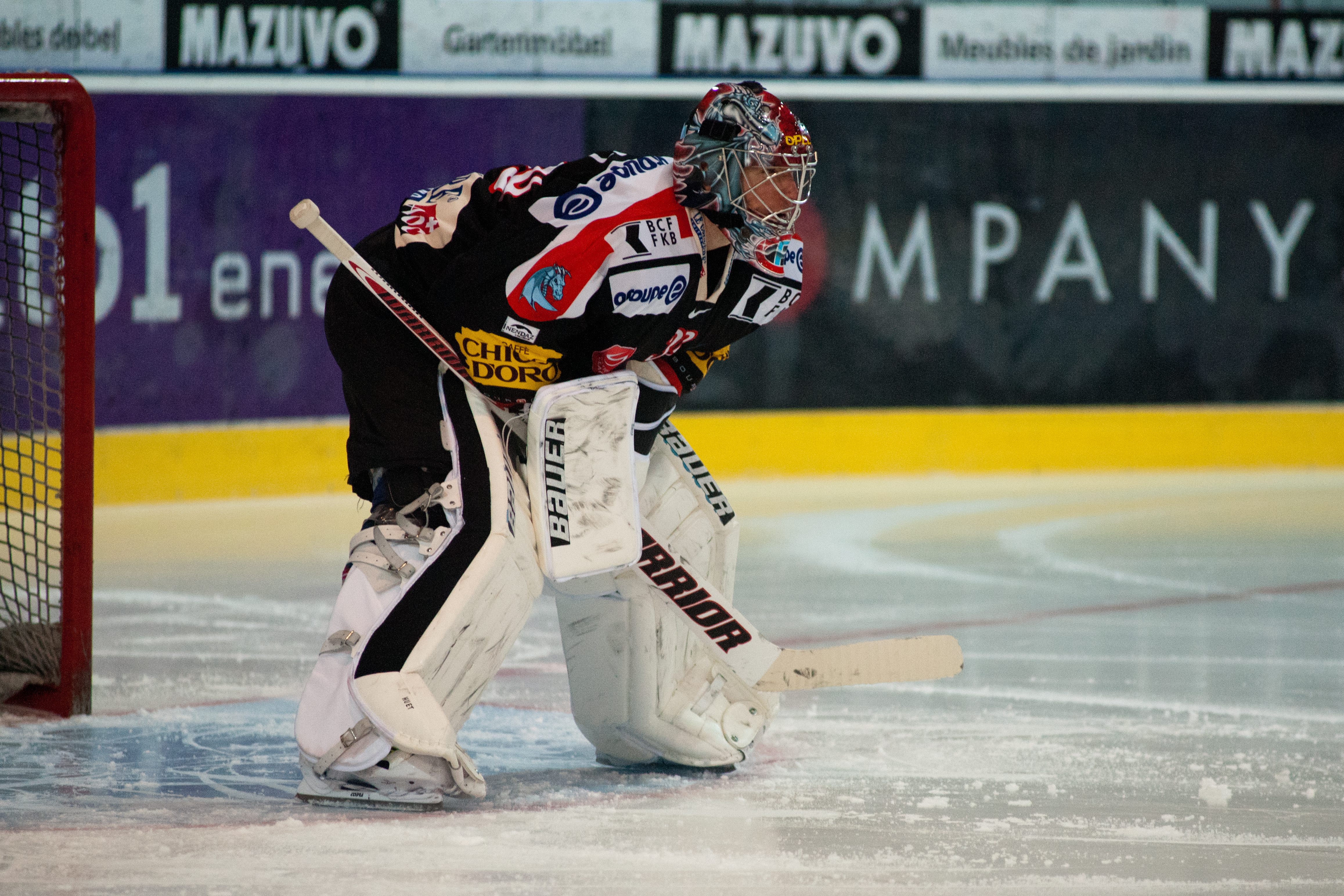 The making of this document was supported by Wikimedia CH. (Submit your project!) For all the files concerned, please see the category Supported by Wikimedia CH. Fribourg-Gotteron vs. HC Bienne, 25.11.2011